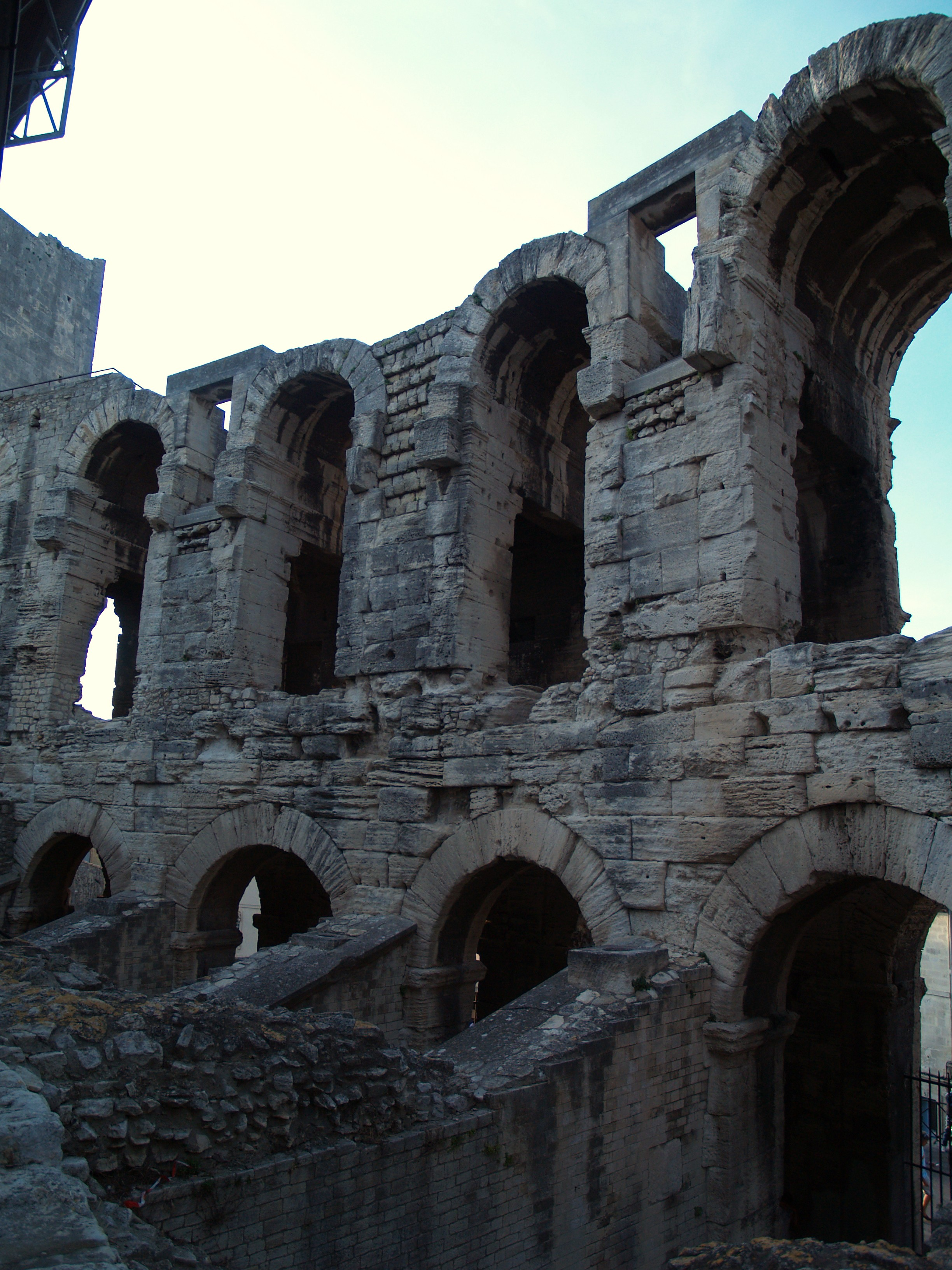 Interior of Arles Arena.